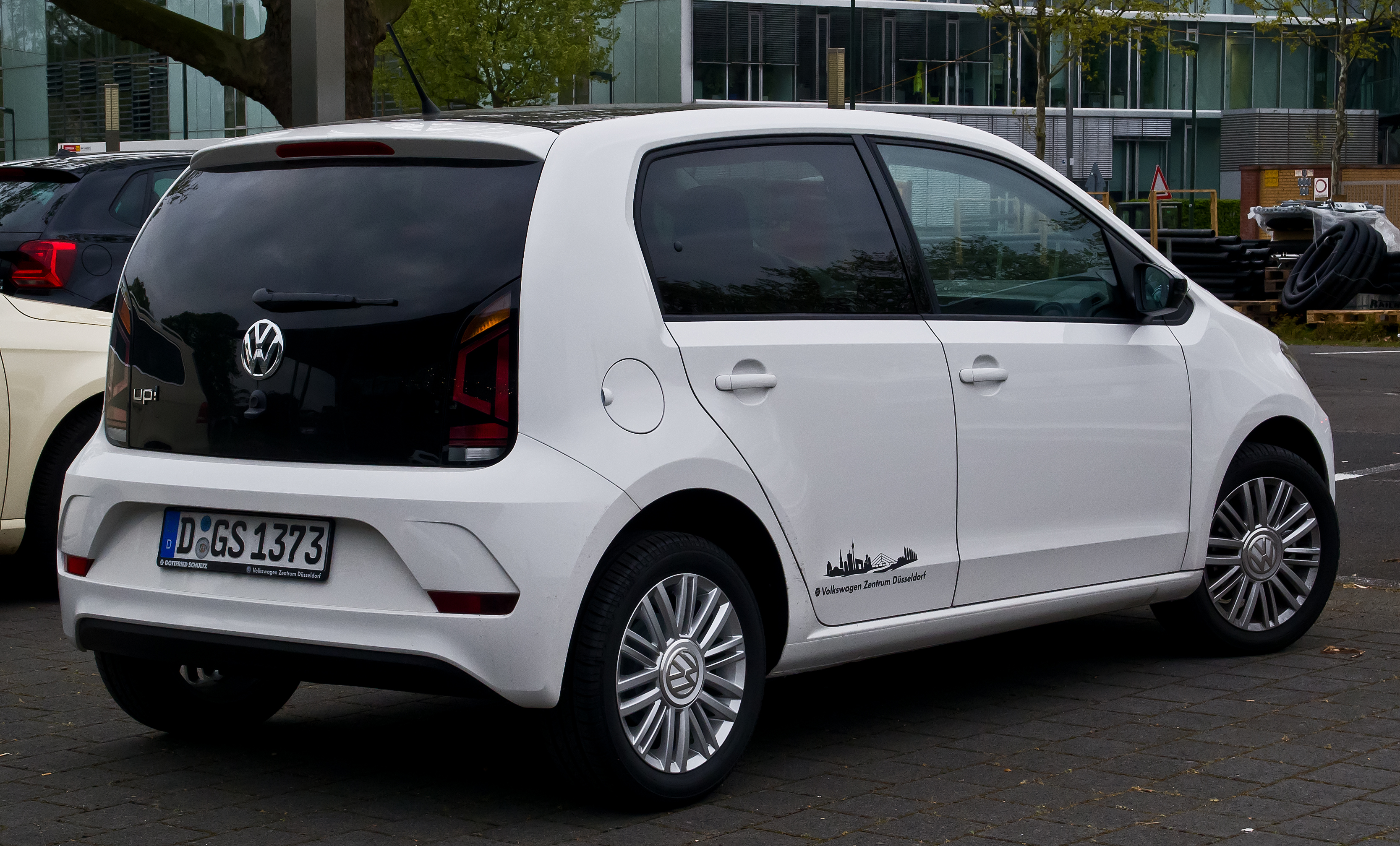 VW high up! 1.0 BlueMotion Technology (Facelift)